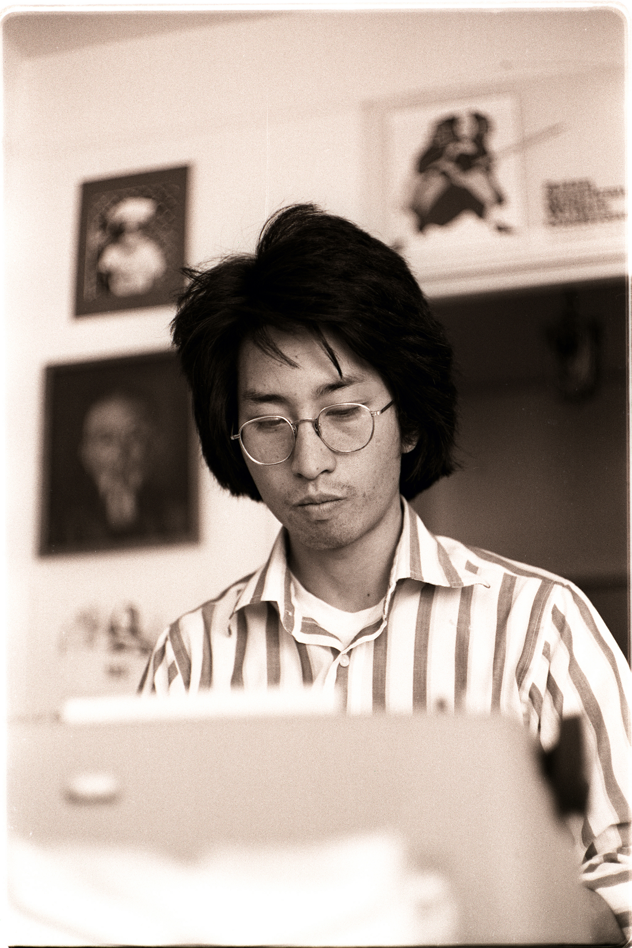 Author Shawn Wong at his IBM typewriter in his San Francisco apartment 1975. The images counterclockwise over his head are: a poster from the First Asian American Writers' Conference at the Oakland Museum, March 1975, a snapshot of Shawn as a child wearing a sailor's outfit, and an oil painting by his mother of his grandfather. PHOTO BY NANCY WONG